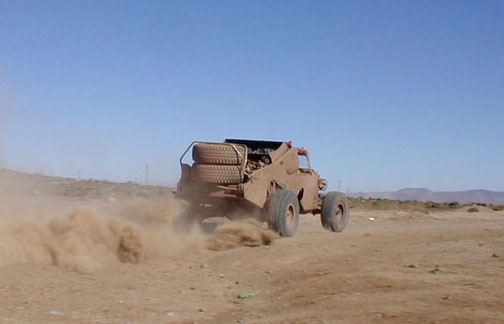 Four-wheel vehicle known as a truggy. Photo taken during the baja 2000 (AKA baja 1000) south of San Quentin, Baja, Mexico.